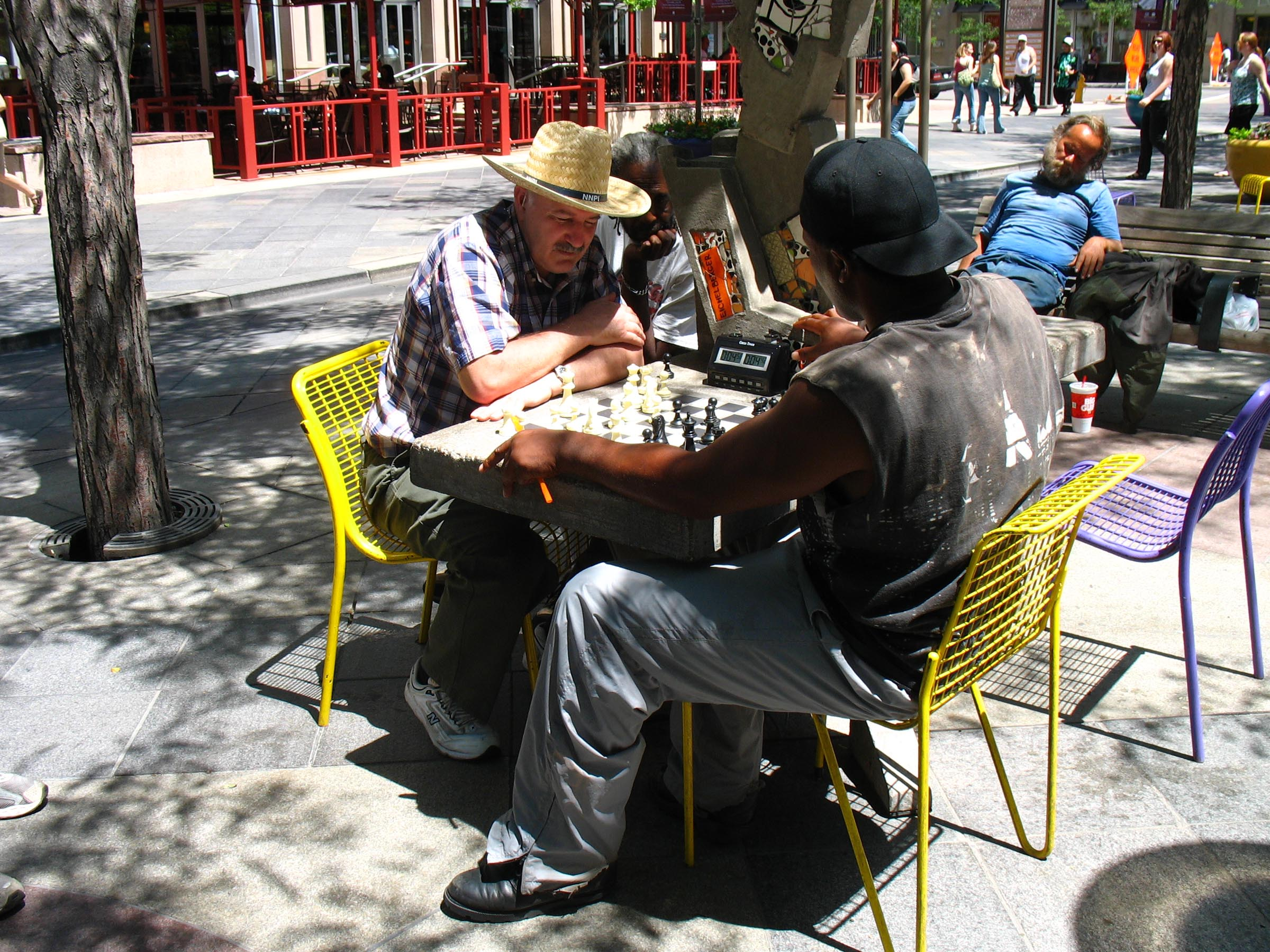 Chess players along the 16th Street Mall in Denver, Colorado, United States